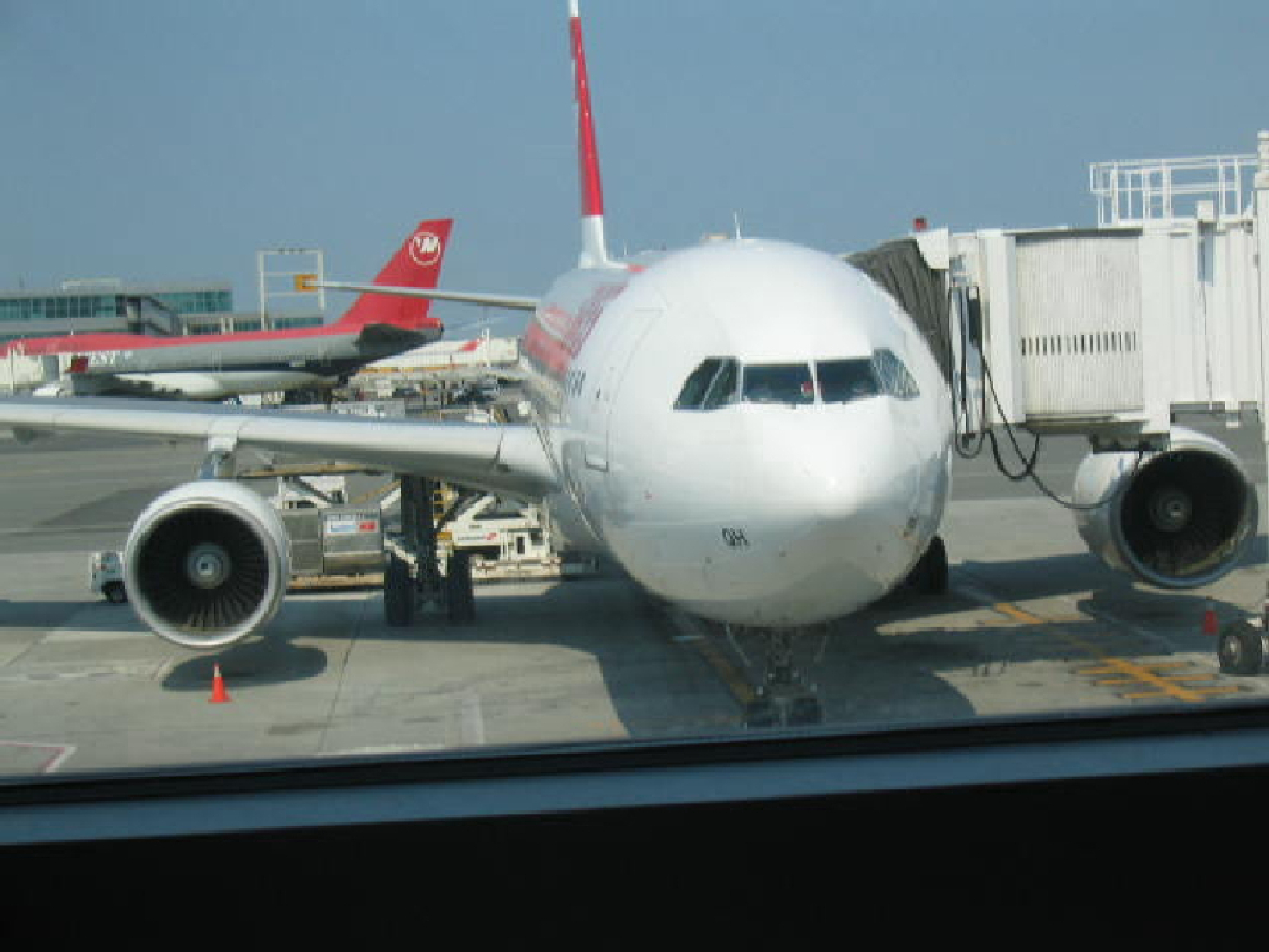 SWISS Airbus A330 QH.